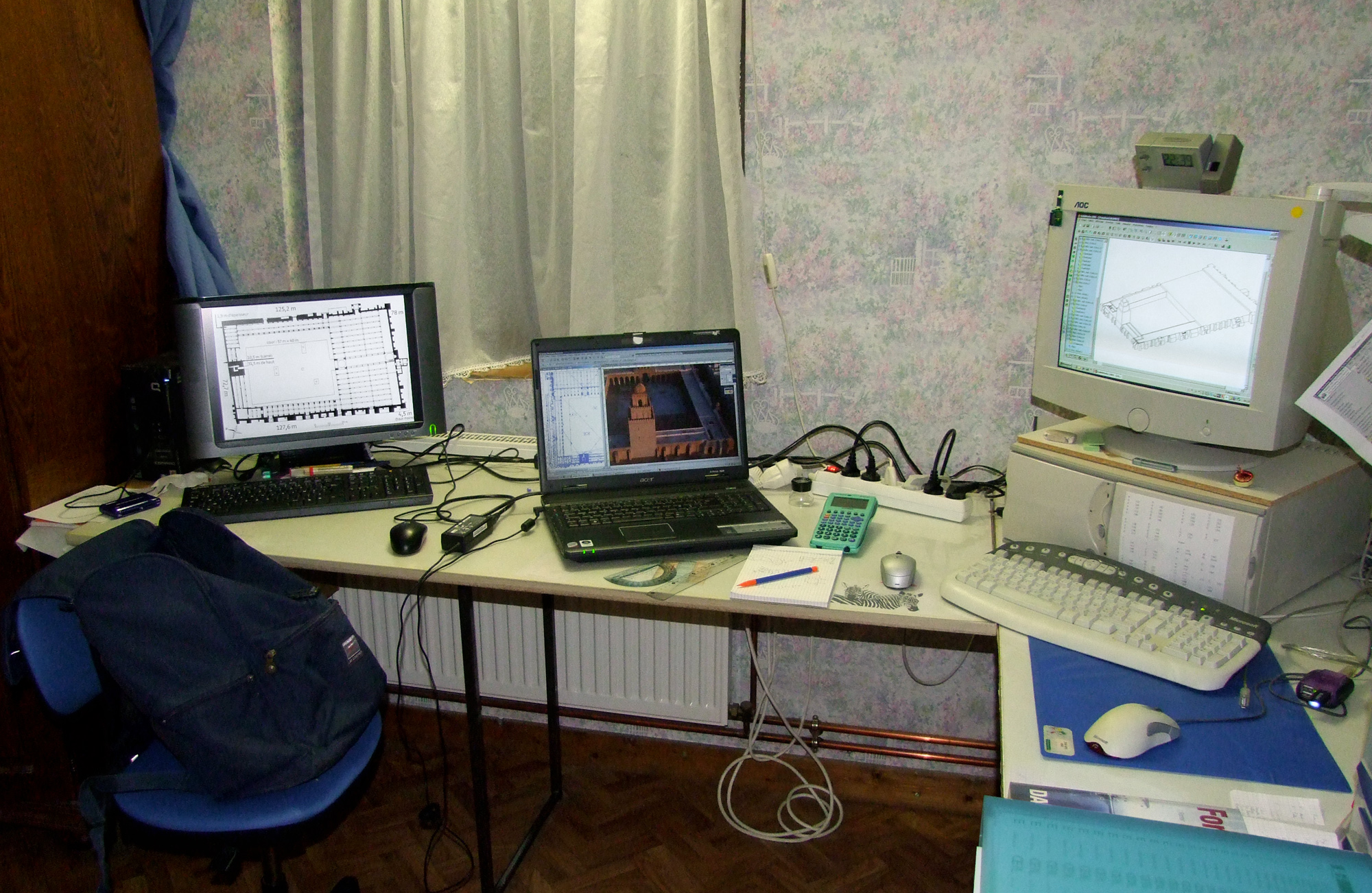 An example of home-made CAD workstation. Improvised workstation for the modelling of File:3D computer modeling of the Great mosquee of Kairouan-fr.svg. On the computer screens, from left to right : general architectural plan with dimensions, splitted-screen monitor showing a more precise plan (for measurements) and an aerial view of the building, and finally the modelling software (SolidWorks 2001) at an early stage of the modeling.